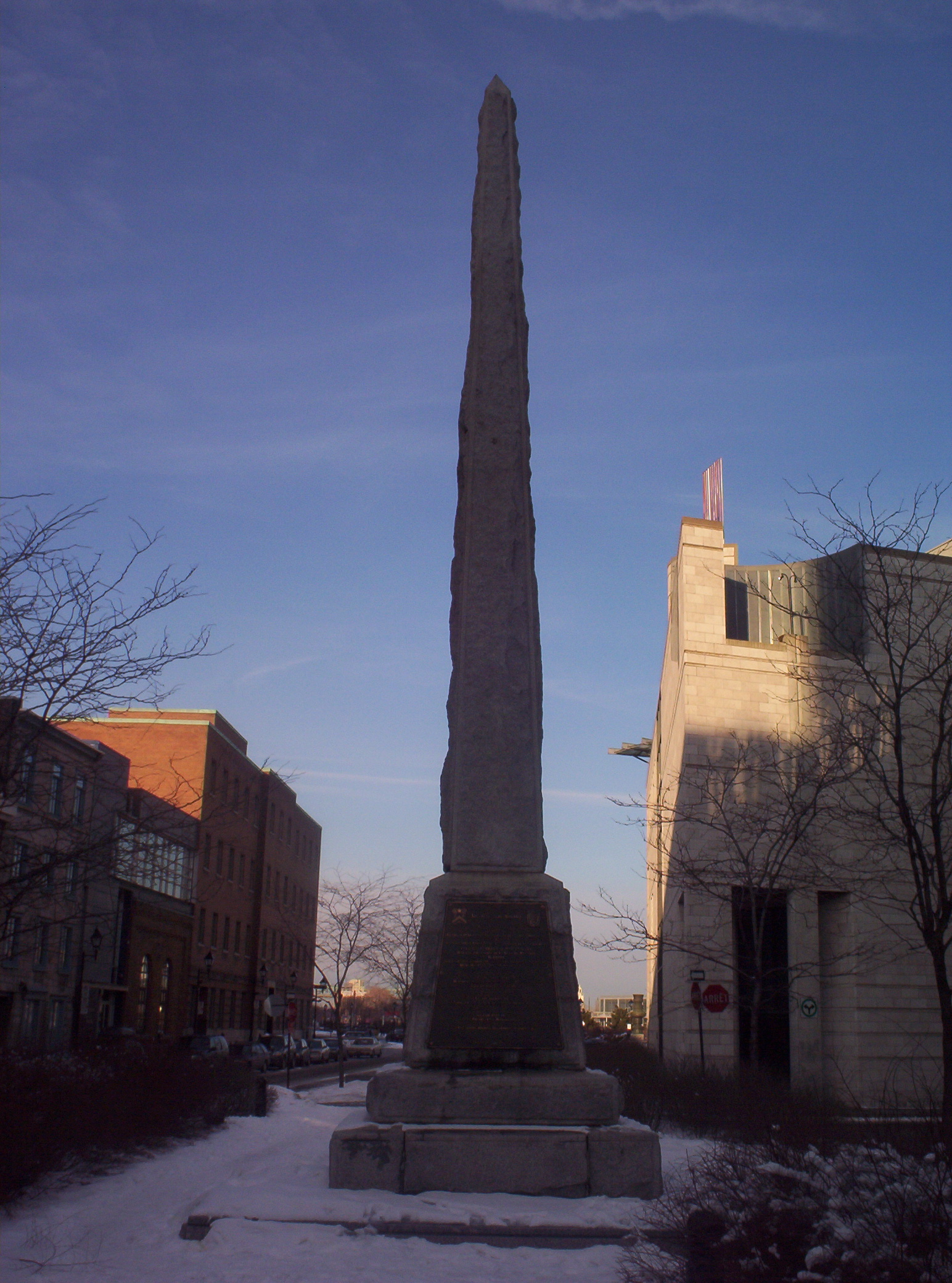 Summary: Pioneers Obelisk Monument, commemorating the foundation of the city at Place D'Youville in Montreal, Québec.